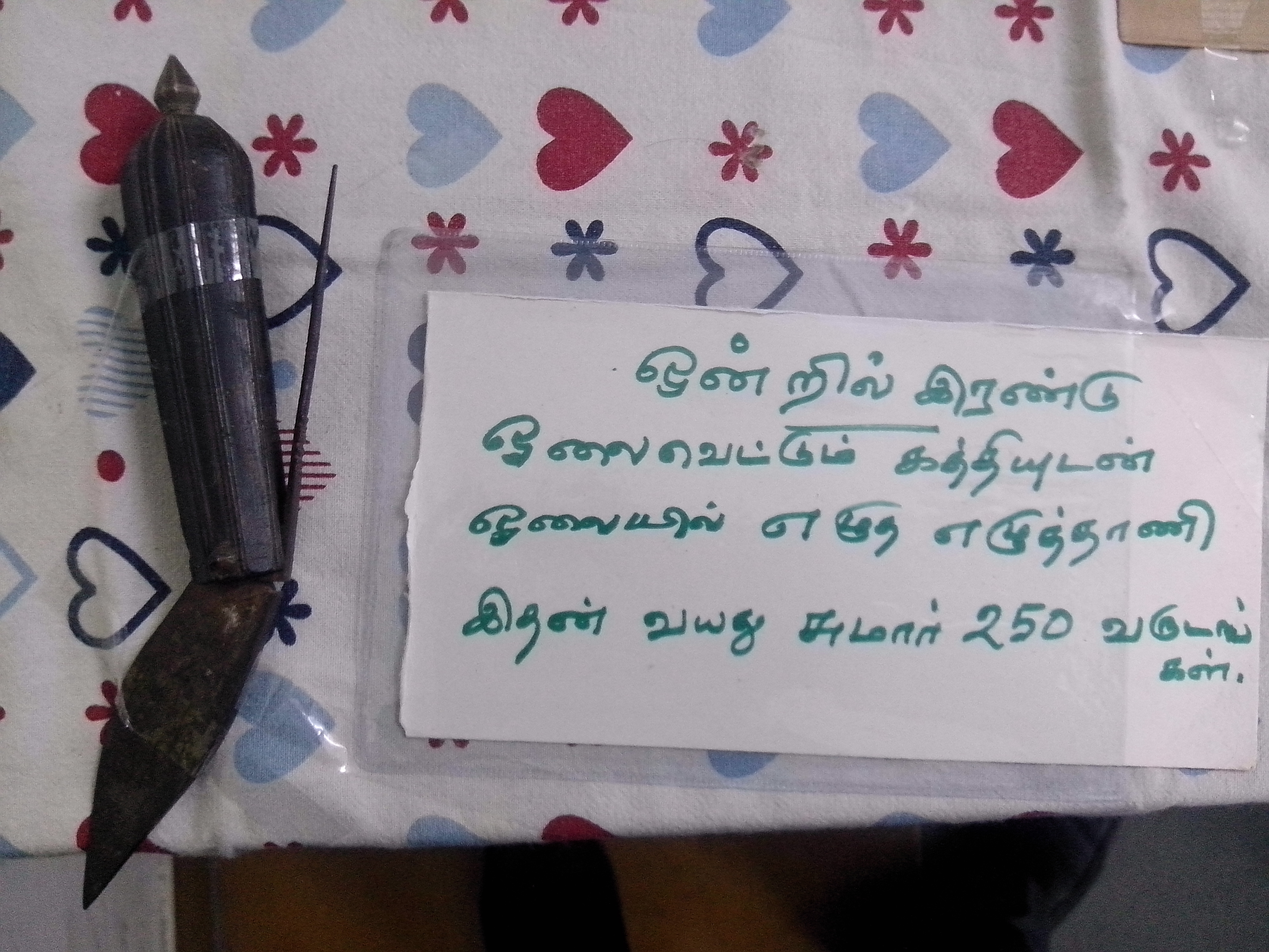 Palm leaf Pen